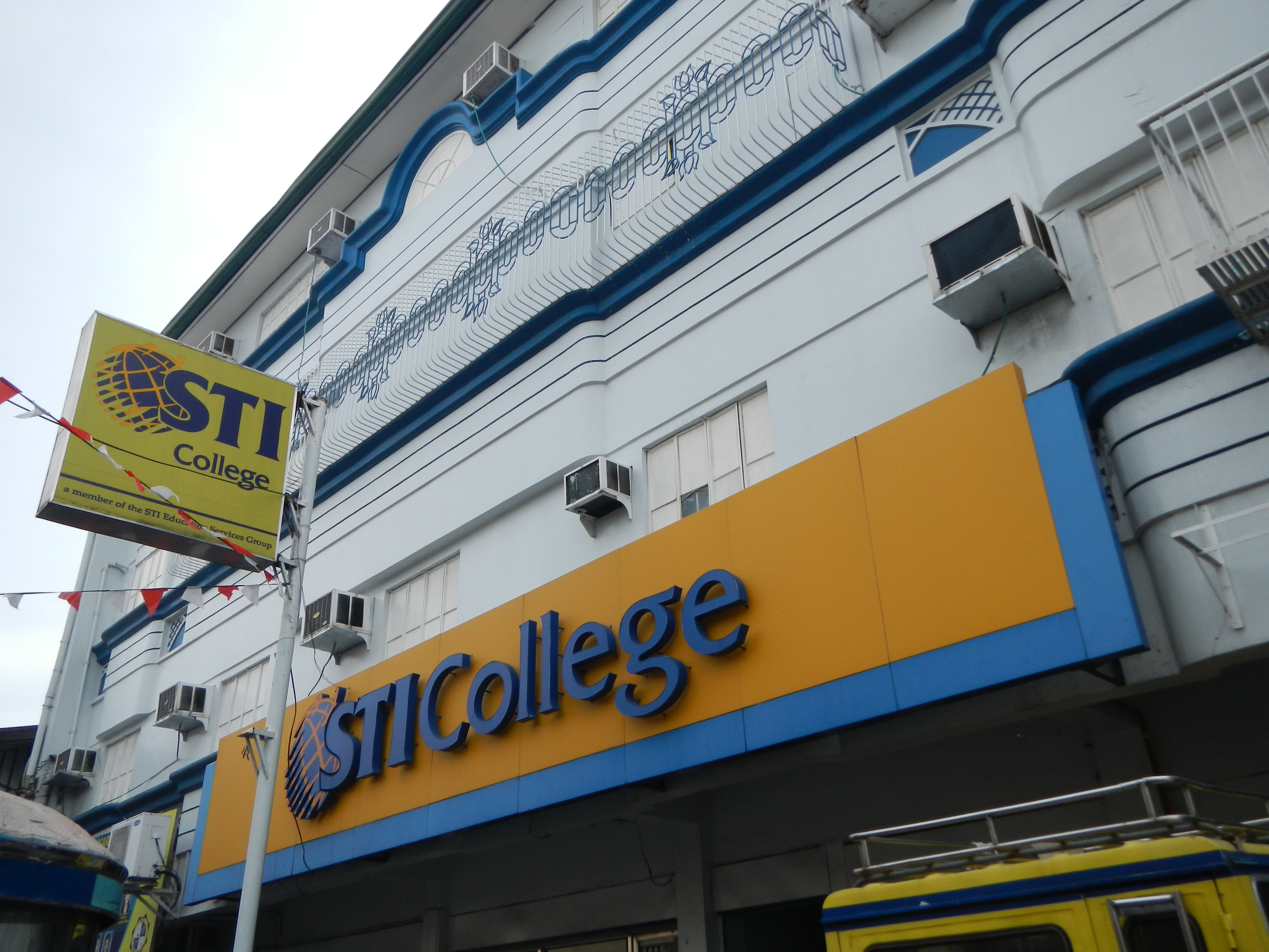 UploadWizard photos -- (General description) -STI College[1] Systems Technology Institute (STI) College Santa Cruz, Laguna - of -- Santa Cruz, Laguna[2] (a first class urban municipality in the province of Laguna,[3]Philippines, the capital town of the province of Laguna, latest census, it has a population of 101,914 people in 19,627 households, situated on the banks of the Santa Cruz River[4] which flows into the eastern part of Laguna de Bay[5] politically subdivided into 26 barangays.Website [6] Coordinates: 14°15'8"N 121°24'15"E)